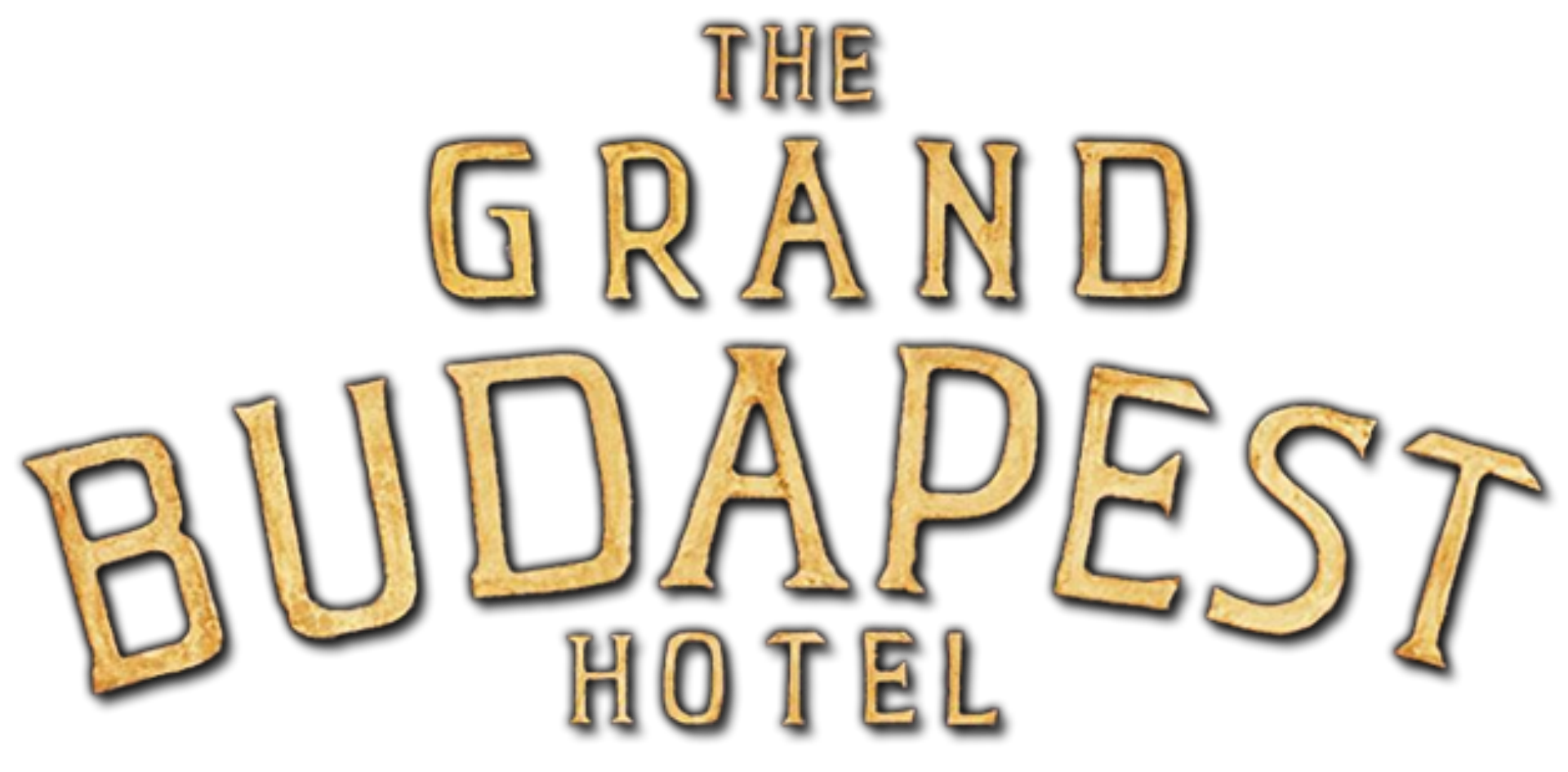 "The Grand Budapest Hotel" movie logo.